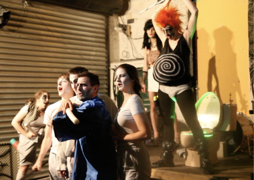 Produced by Stairwell Theater - May 2015